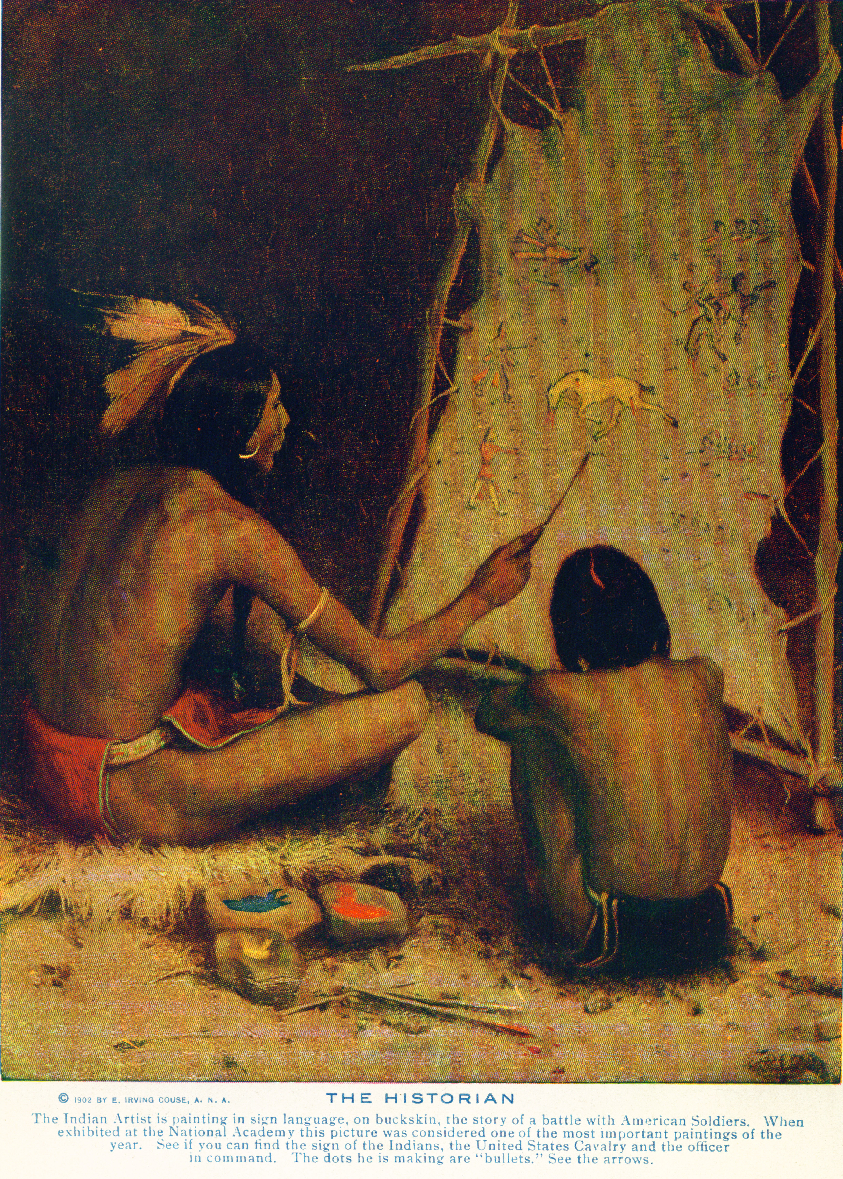 This is an image or page from The How and Why Library, a book first published in the United States in 1909. Location: The Red Child of the Forest, between pages 12 and 13